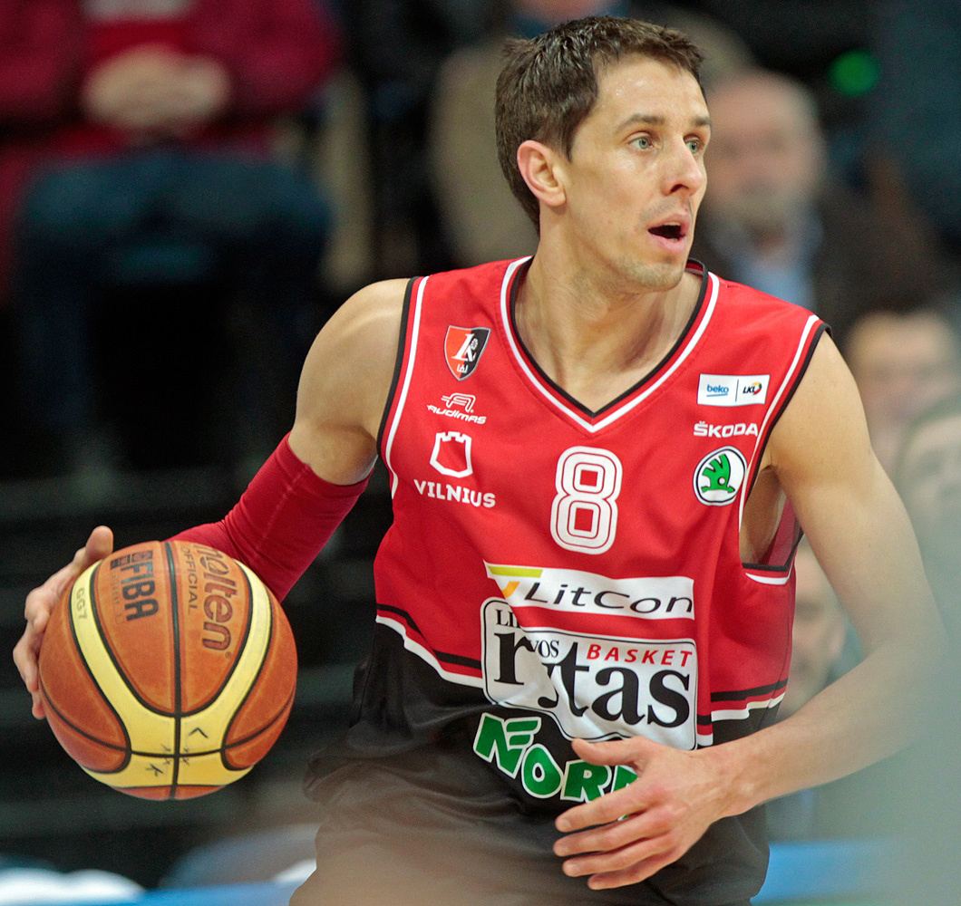 Basketball player Mindaugas Lukauskis